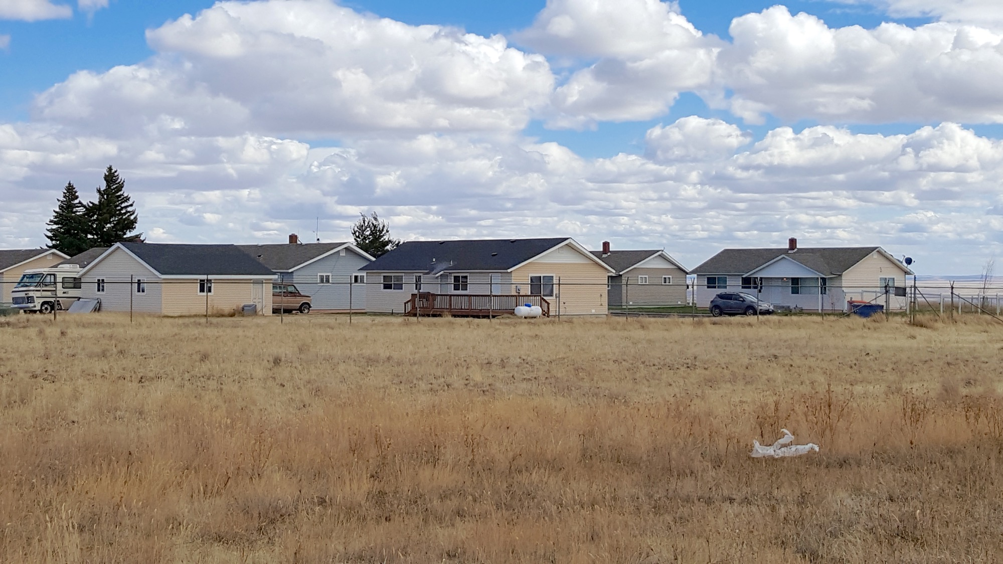 Condon AFS Housing Area, photo by John Stanton 1 Oct 2016